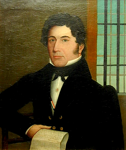 Jean-Baptiste Roy-Audy (1778-1848), Ludger Duvernay (1799-1852), 1832, oil on canvas, 91,4 x 72 cm, Montréal, Société Saint-Jean-Baptiste, Ludger-Duvernay House.